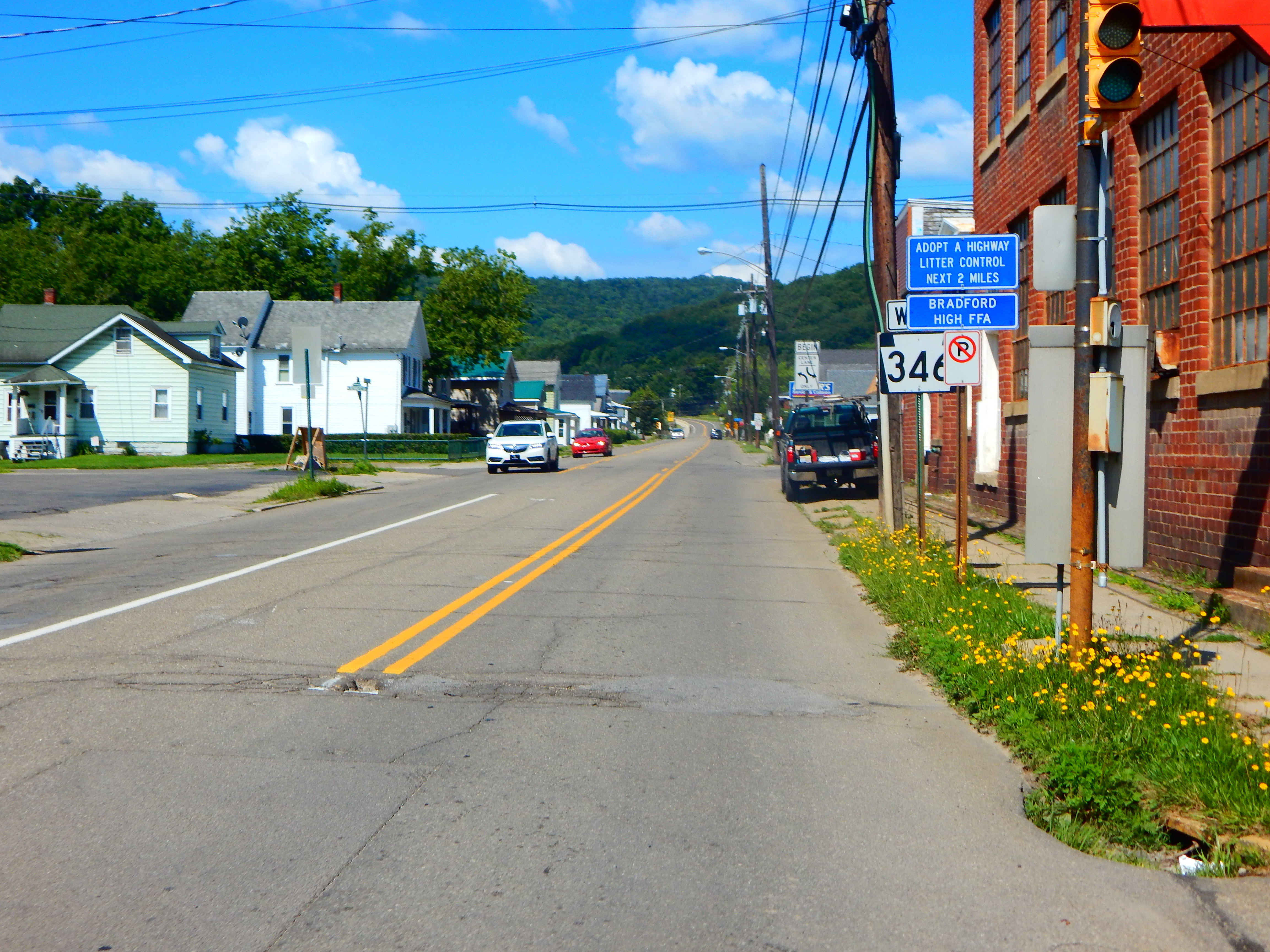 Route 346 west leaving downtown Bradford, Pennsylvania.